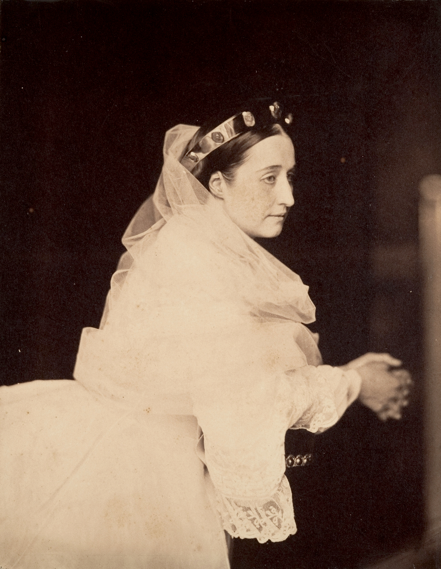 Eugenie, Empress of the French